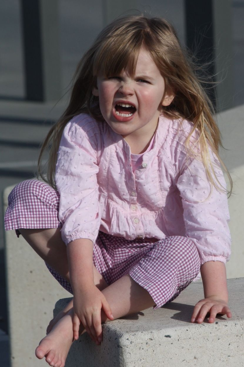 A toddler angrily shouting at someone